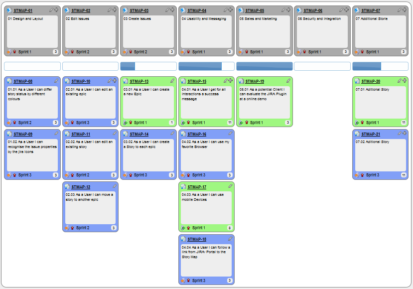 The picture shows a simple grid to explain how Story Maps are working. It is used at user stories